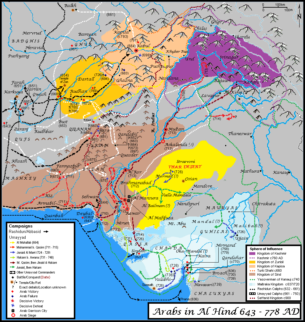 Grsphical representation of Arab campaigns in Indian Sub Continent. Data is from Public domain works of Al Baladhuri and The Chachnama. Not to exact scale and accuracy depends on primary information source.